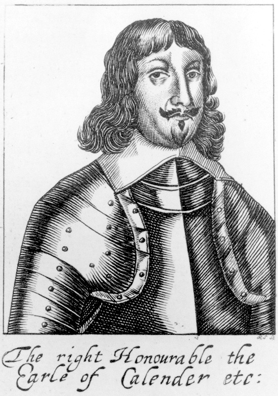 Jasmes Livingstone, 1. Earl of Callendar R.S., after Unknown artist line engraving, published 1647